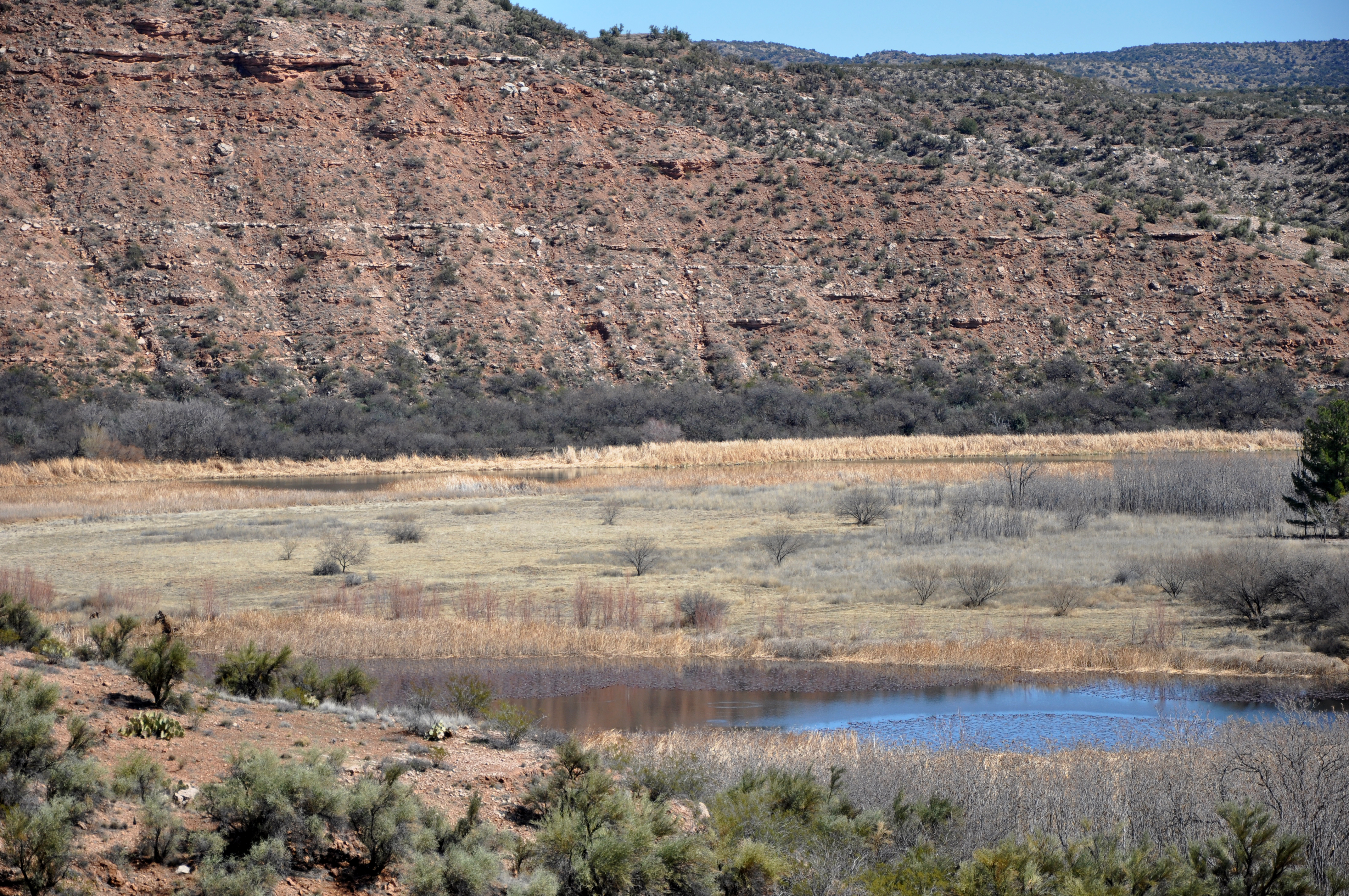 Pecks Lake near Clarkdale in the U.S. state of Arizona. View of the lake, a U-shaped cutoff meander, is from near Sycamore Canyon Road along the Verde River.